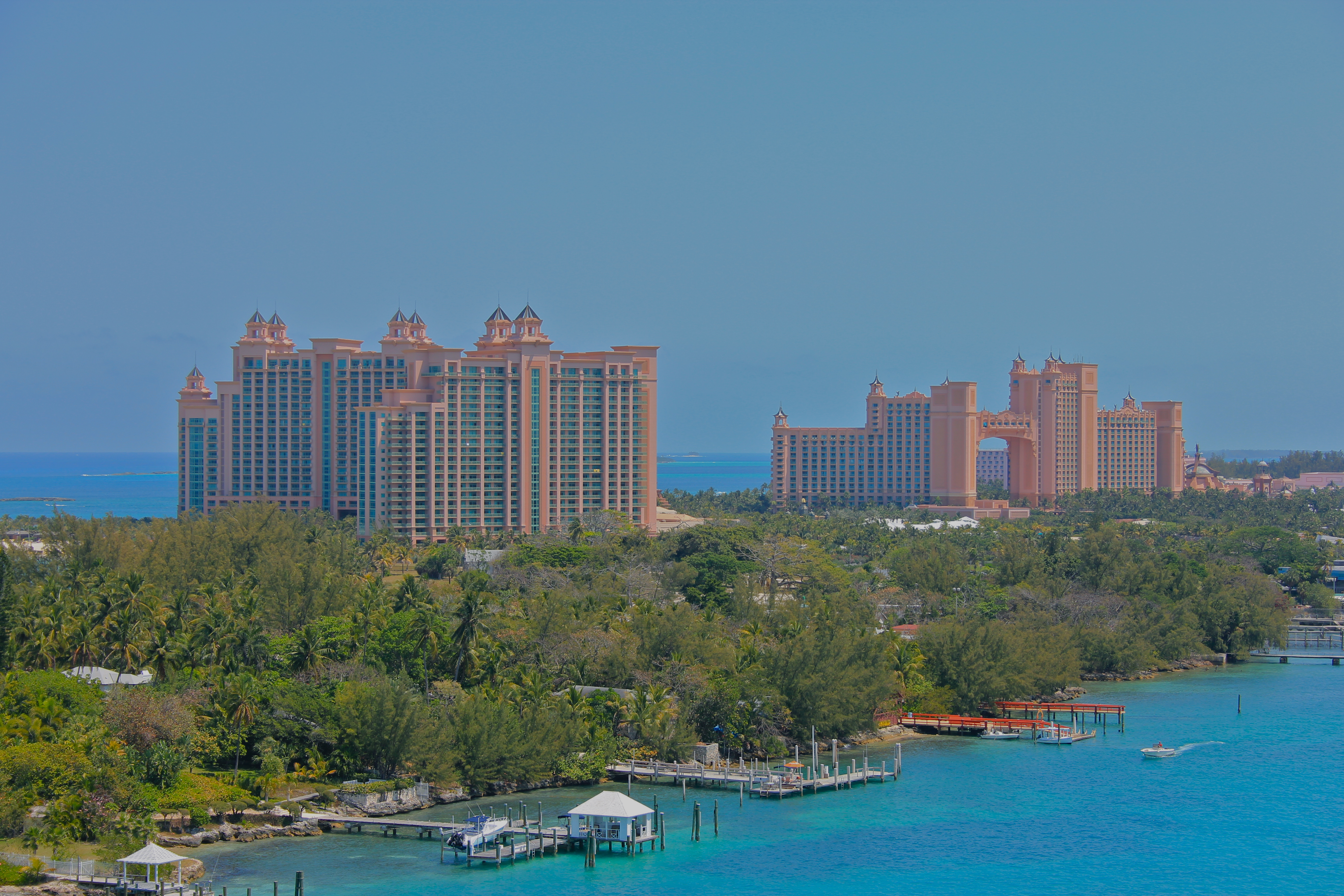 Atlantis Resort, Nassau, Bahamas